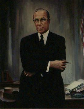 George P. Shultz Upload Source - U.S. Department of Labor Biography evrik ( George P. Shultz)